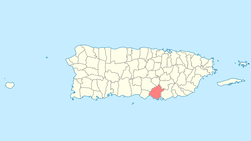 Municipal locator of Puerto Rico